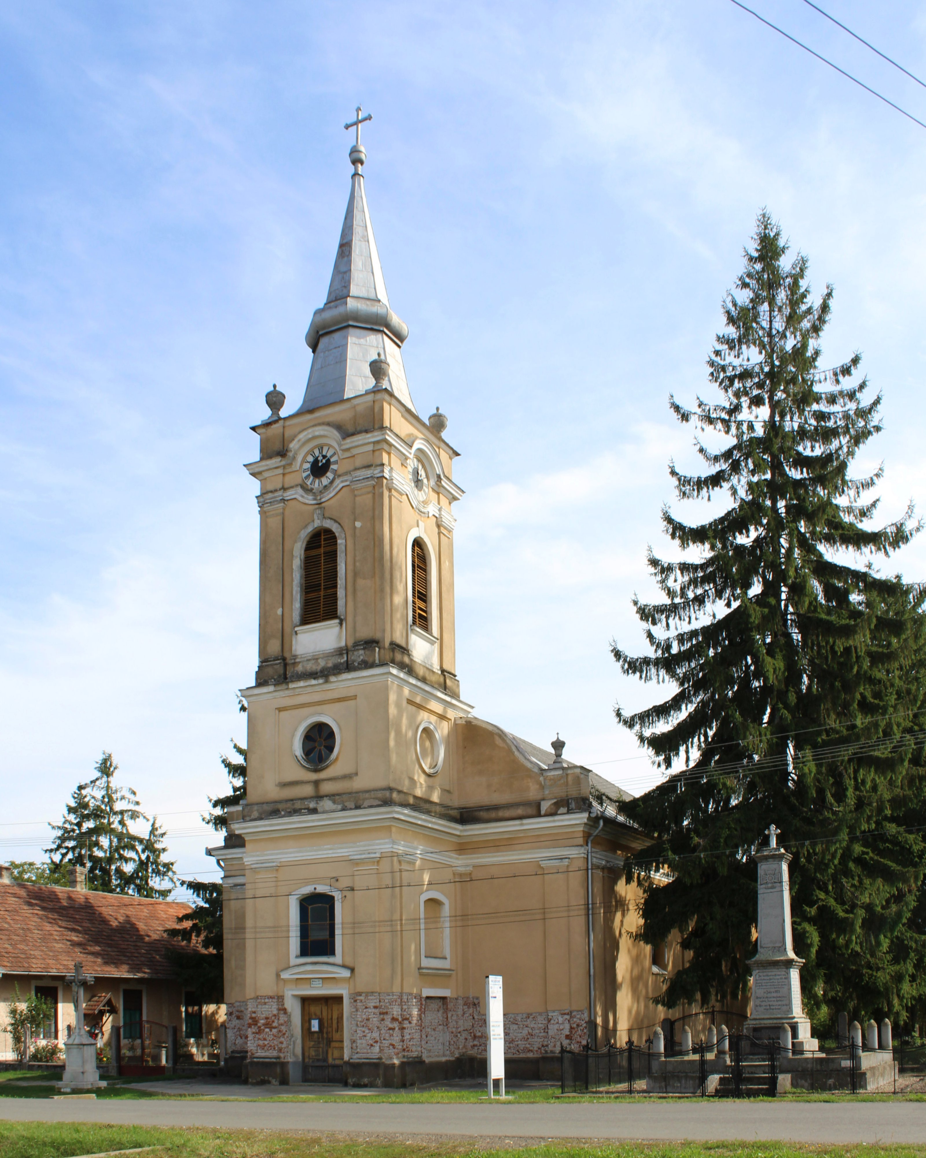 Romano-Catolic Church, Neudorf, Arad County, Romania, built 1771-1841